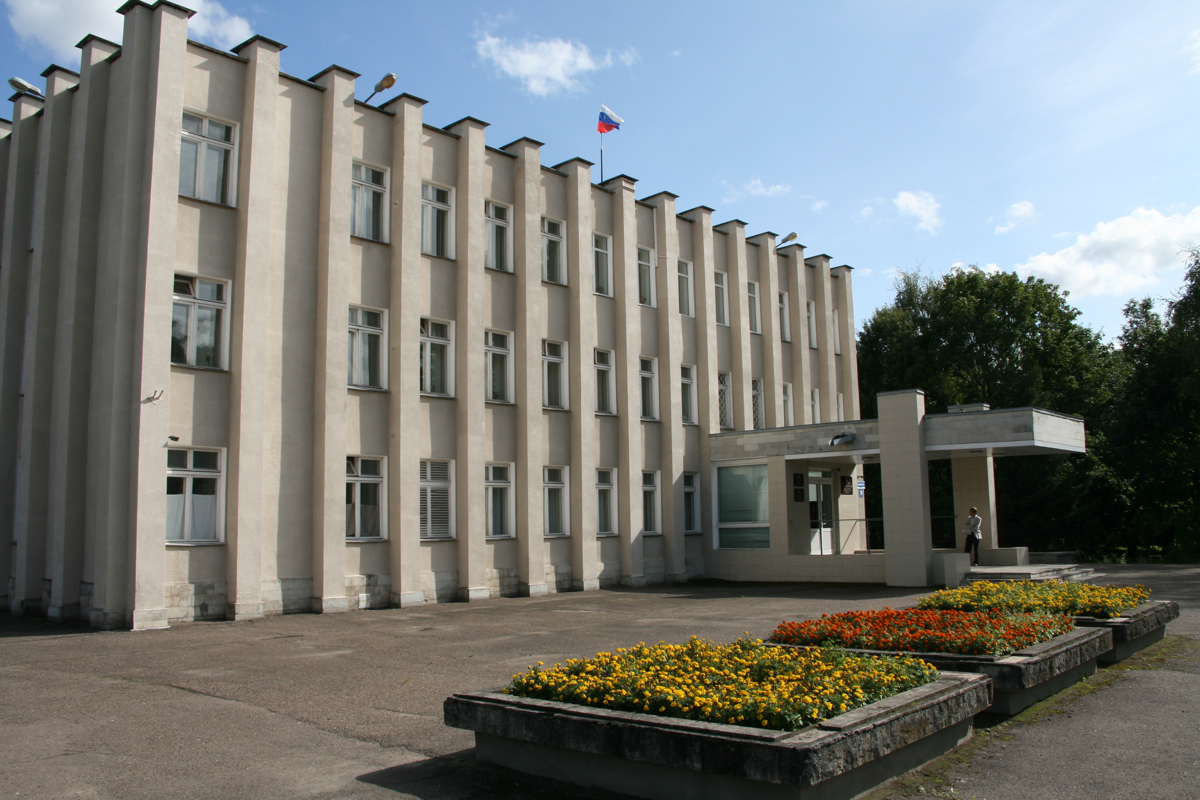 Novgorodsky District city hall, 78 Bolshaya Moskovskaya street, Veliky Novgorod. Front side view, from the north-west